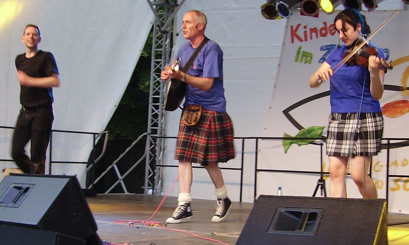 the Scottish band Fischy Music